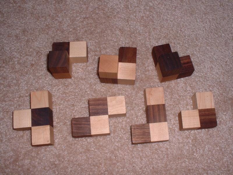 Soma puzzle cube: disassembled.